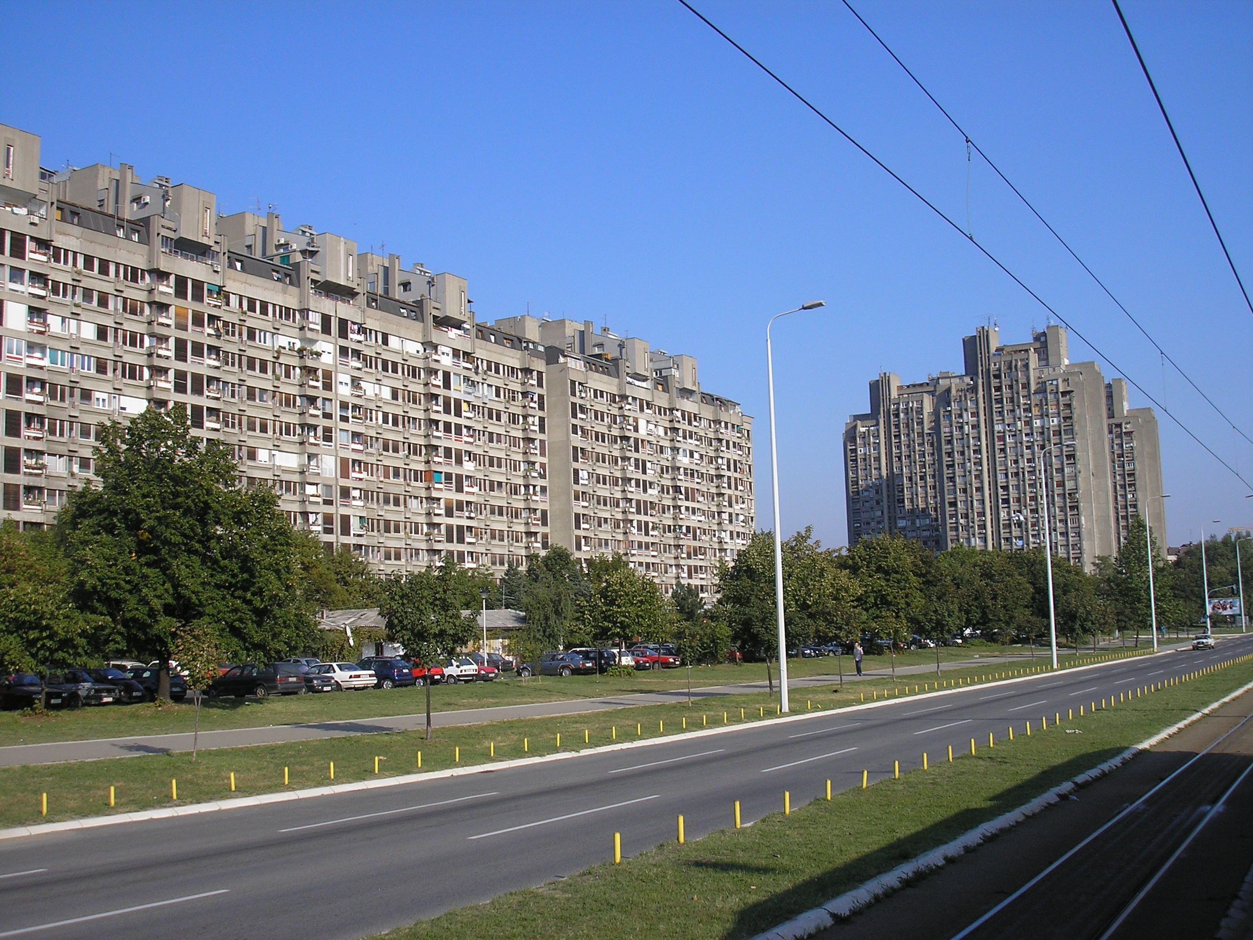 Block 23 from the southwest side, shoted from a tramway